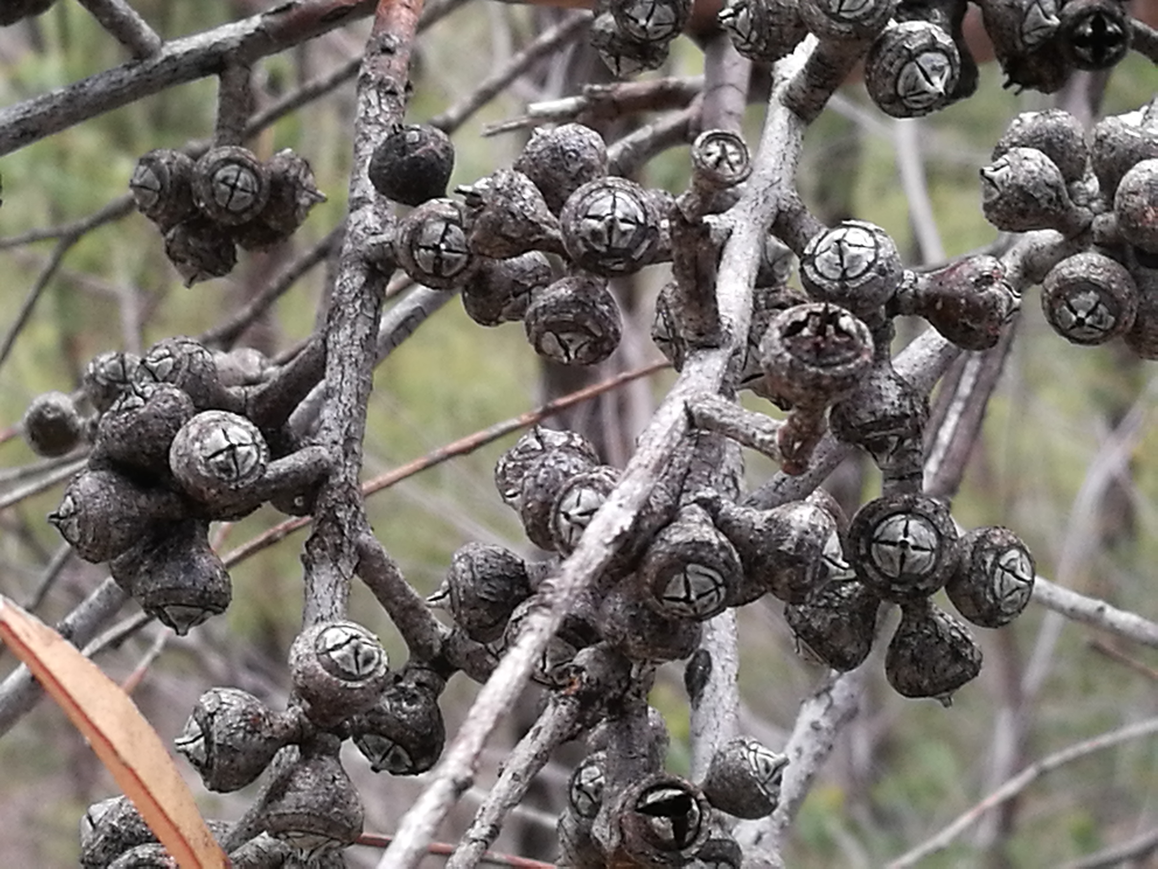 gumnuts, specimen at waypoint 298. Pokolbin mallee, Eucalyptus pumila, Pokolbin, NSW, 28/11/2017. GPS Latitude Ref - South GPS Latitude - 32 deg 46' 29.96" GPS Longitude Ref - East GPS Longitude - 151 deg 15' 24.50" GPS Altitude Ref - Above Sea Level GPS Altitude - 189.41 m Pokolbin Mallee, Eucalyptus pumila